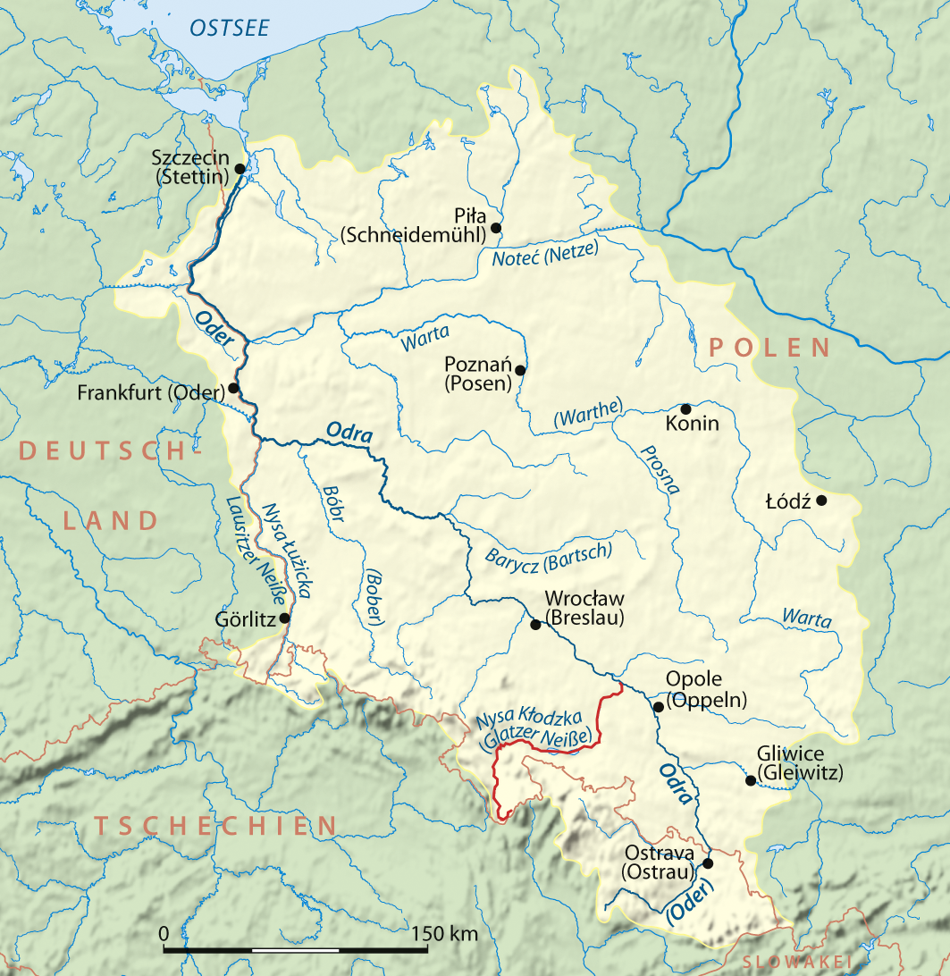 The Nysa Kłodzka (red) within the drainage basin of the Oder River, German version